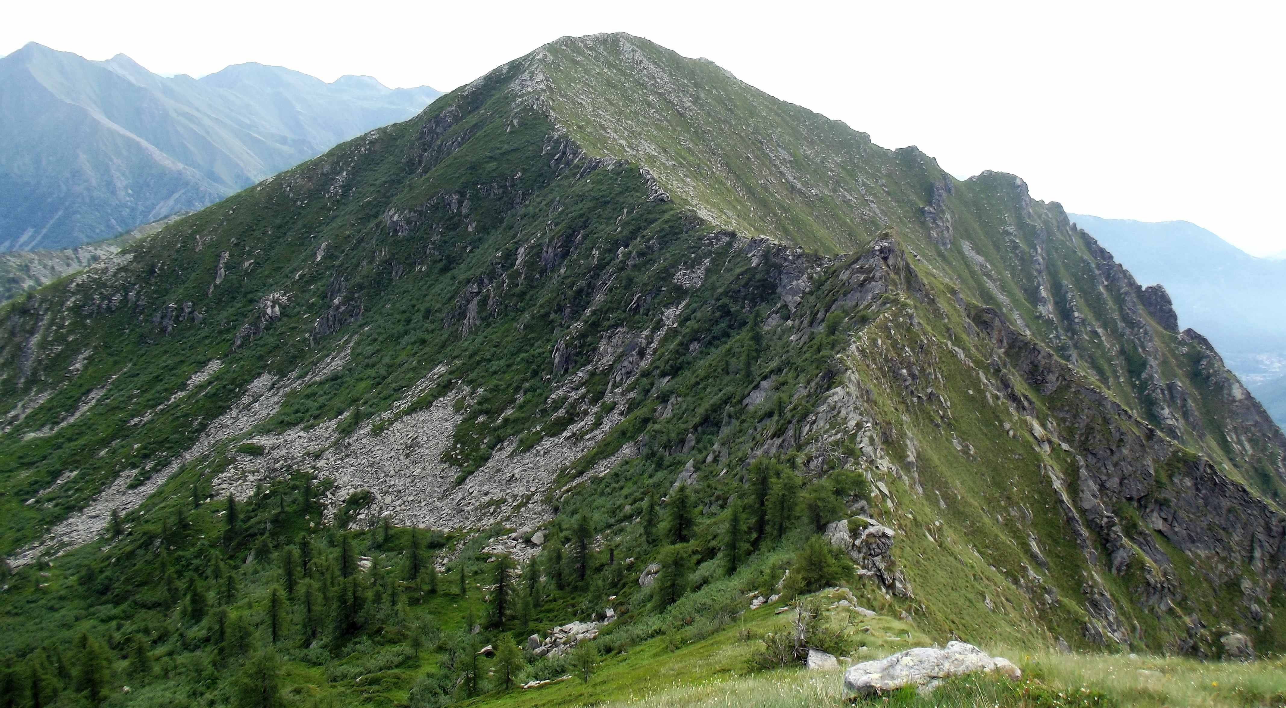 Monte Plu (Graian Alps, Italy) dalla punta d'Attia